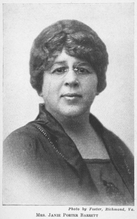 photo of Janie Porter Barrett, circa 1922